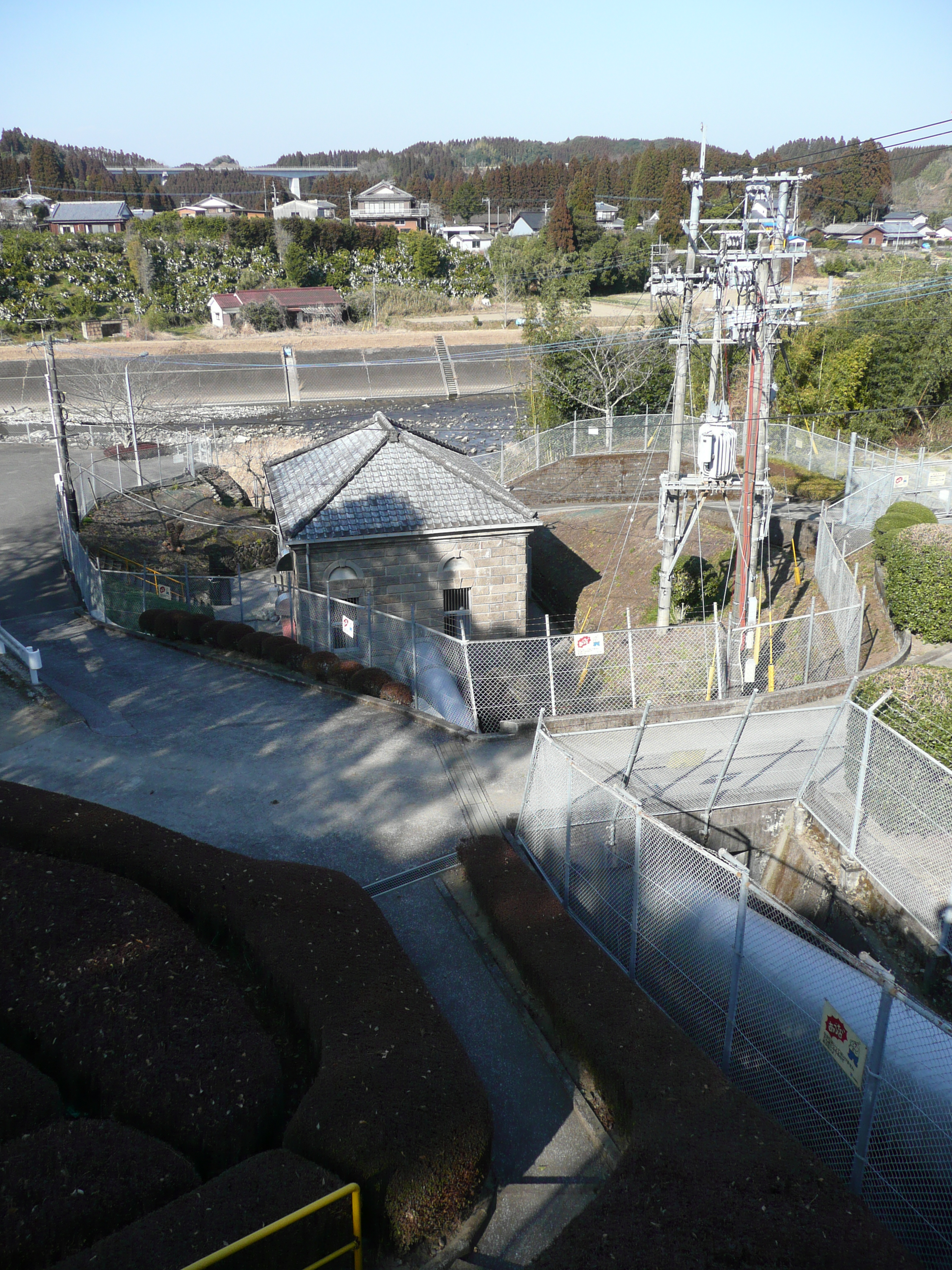 Kurokita Power station (Miyazaki, Japan)